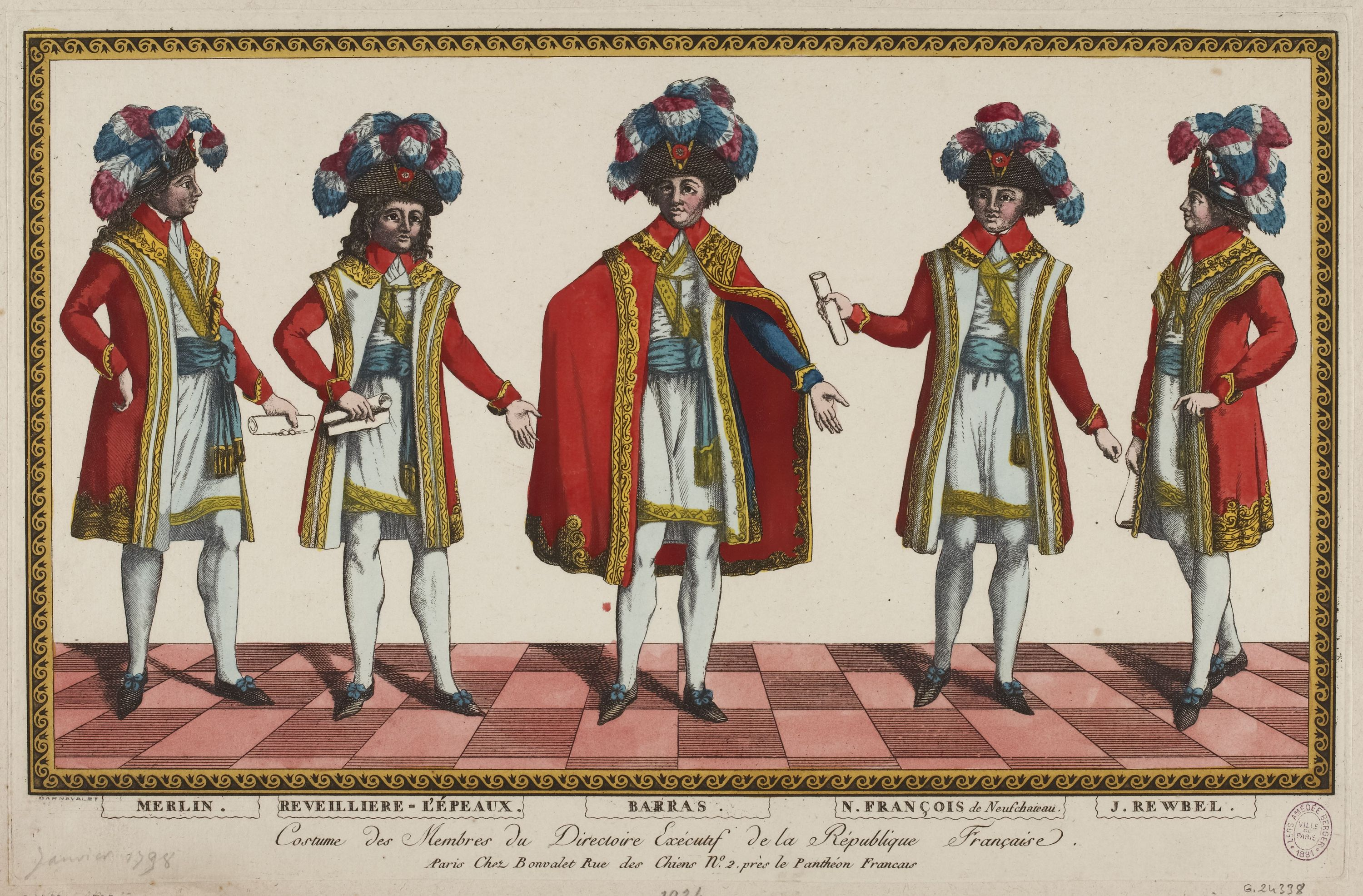 Members of the French Directoire, from left to right, Merlin de Douai, La Révellière-Lépaux, Barras, François de Neufchâteau and Reubell, wearing official costume.